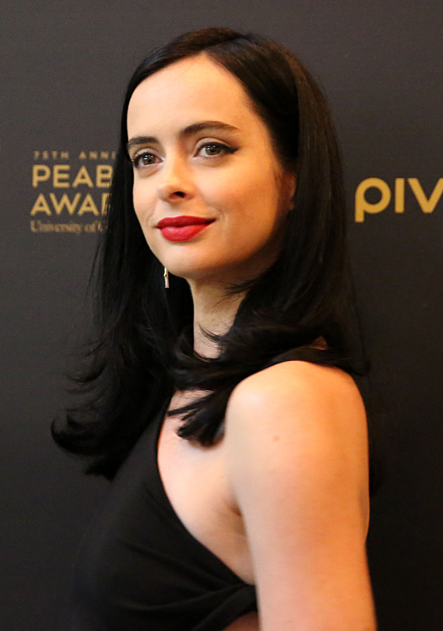 Peabody's "Marvel's Jessica Jones" Night was held on Wednesday, May 18, 2016 at the New York Institute of Technology's auditorium as part of Peabody Week 2016. It included a Q&A led by NPR's Eric Deggans with Showrunner Melissa Rosenberg and actors Carrie-Anne Moss and Krysten Ritter. This photo includes Krysten Ritter.